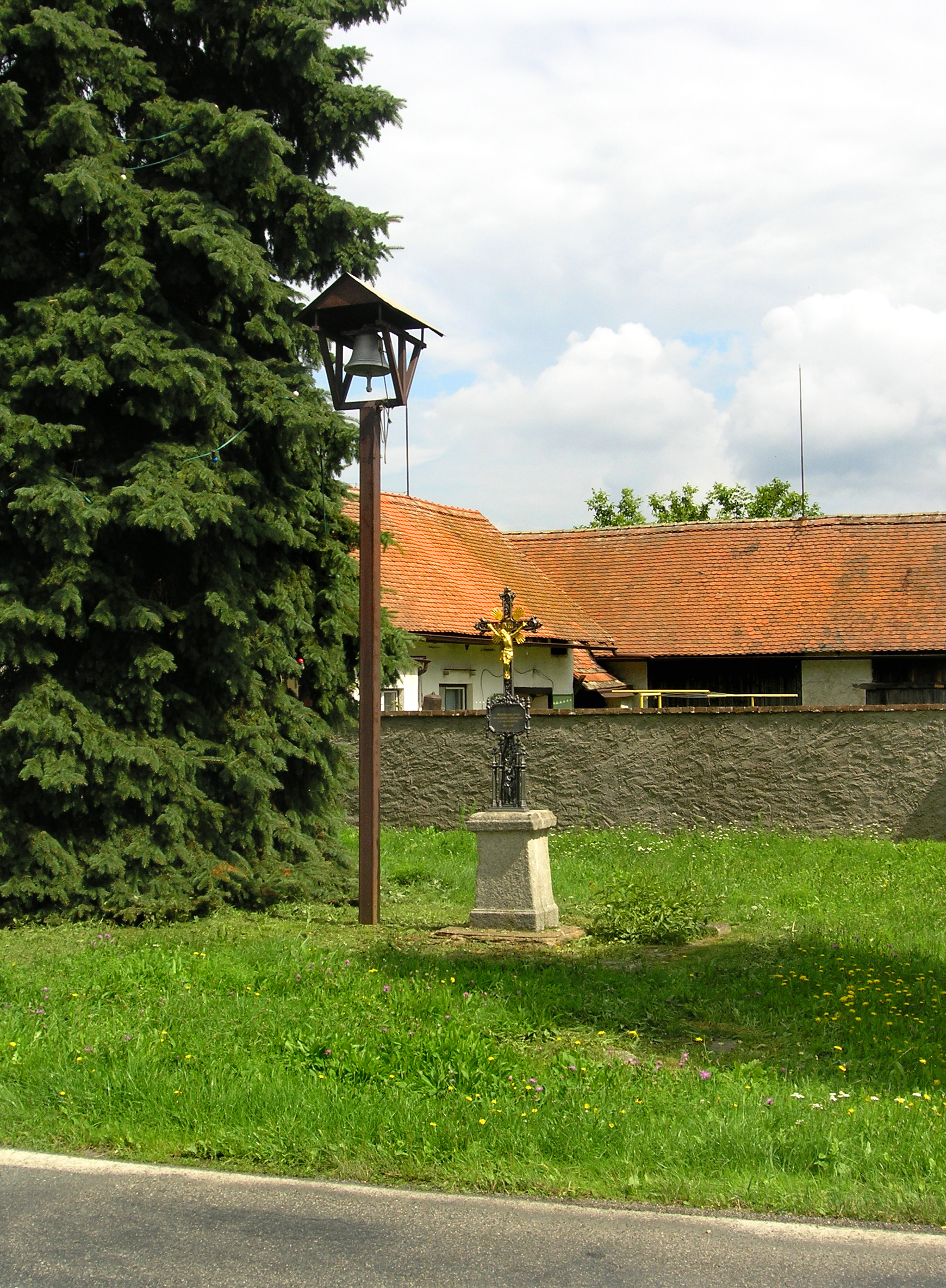 Crucifix in Borek, part of Horka I village, Czech Republic